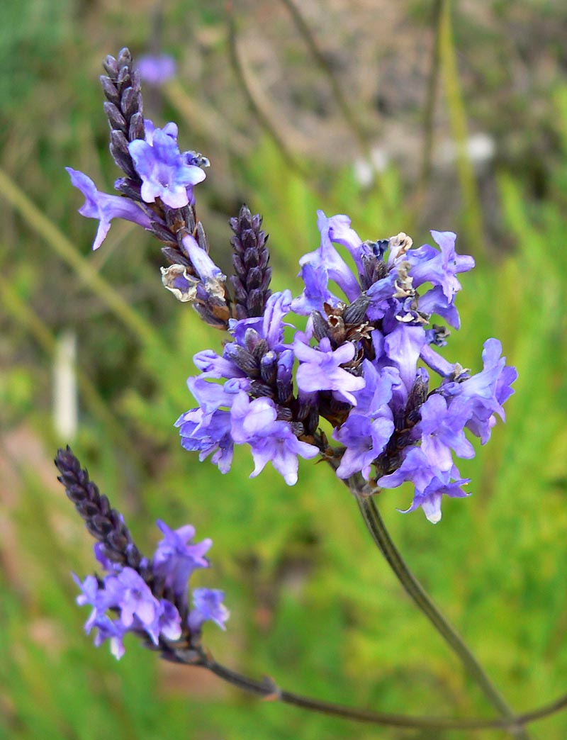 Photo of Lavandula canariensis at the University of California Botanical Garden